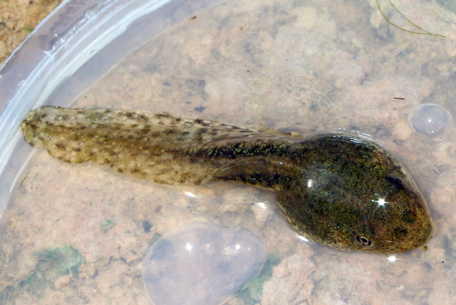 Perez's Frog (Pelophylax perezi). River Ubierna, Burgos (Spain).